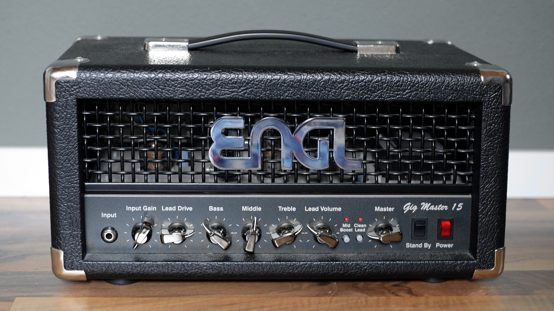 Guitar Amplifier Engl Gigmaster 15 W Head